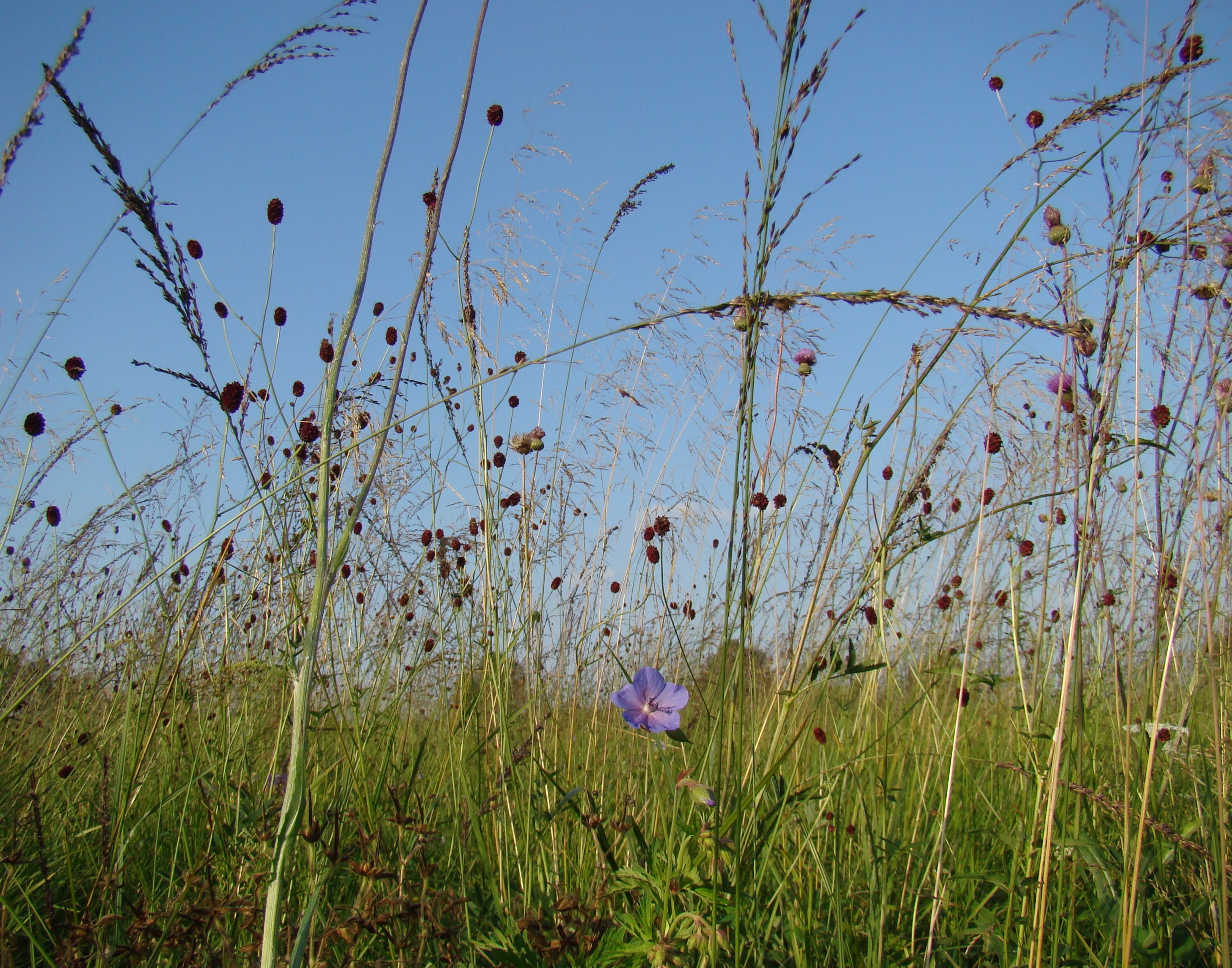 Selino-Molinietum (All. Molinion) meadow with Molinia caerulea, Sanguisorba officinalis and Geranium pratense. Poland, Natura 2000 area Ludów Śląski (Lower Silesia)